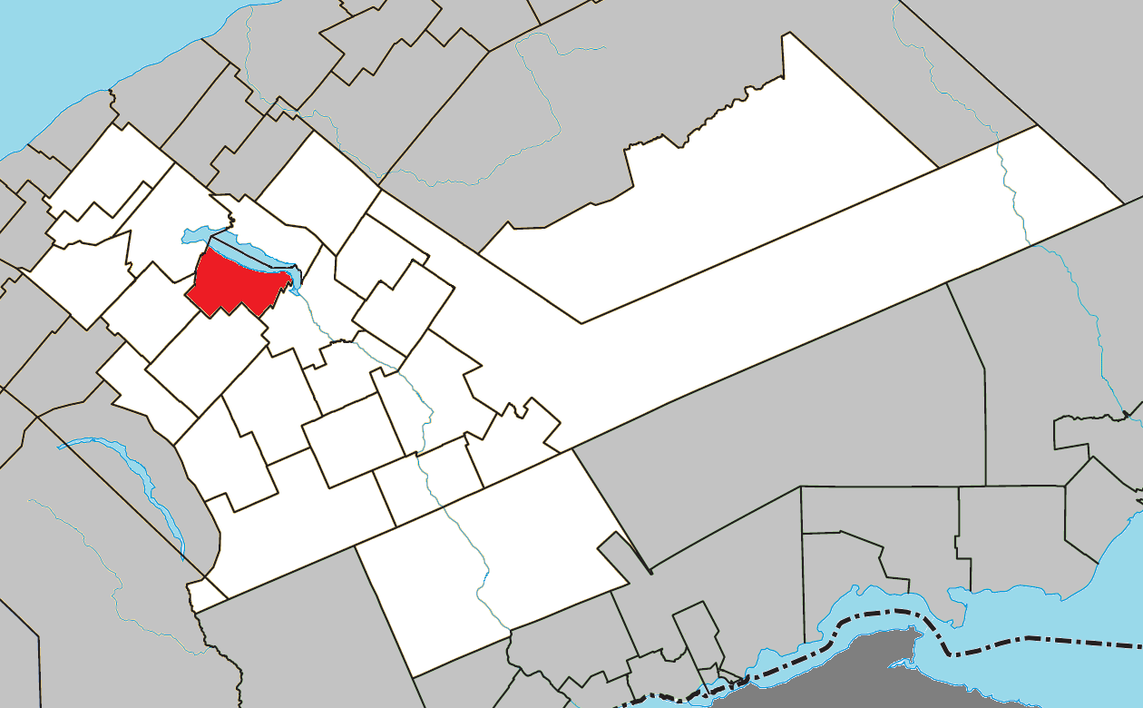 Location of Val-Brillant, Quebec within La Matapédia Regional County Municipality.